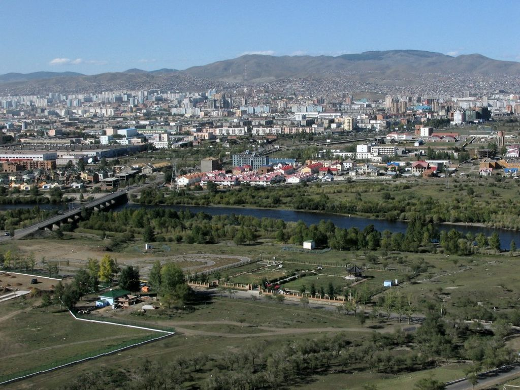 Distance view of the Mongolian capital Ulan Bator, seen from the Zaisan memorial.